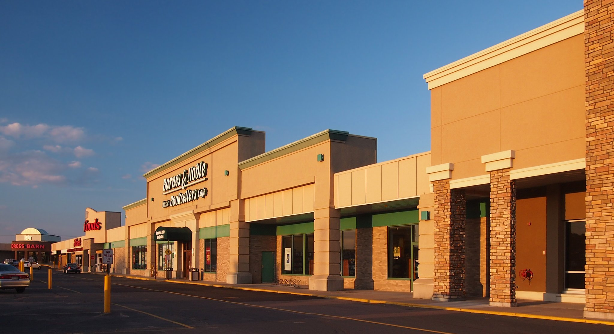 Har Mar Mall, 2100 Snelling Ave N, Roseville, Minnesota, USA. Viewed from the southwest.